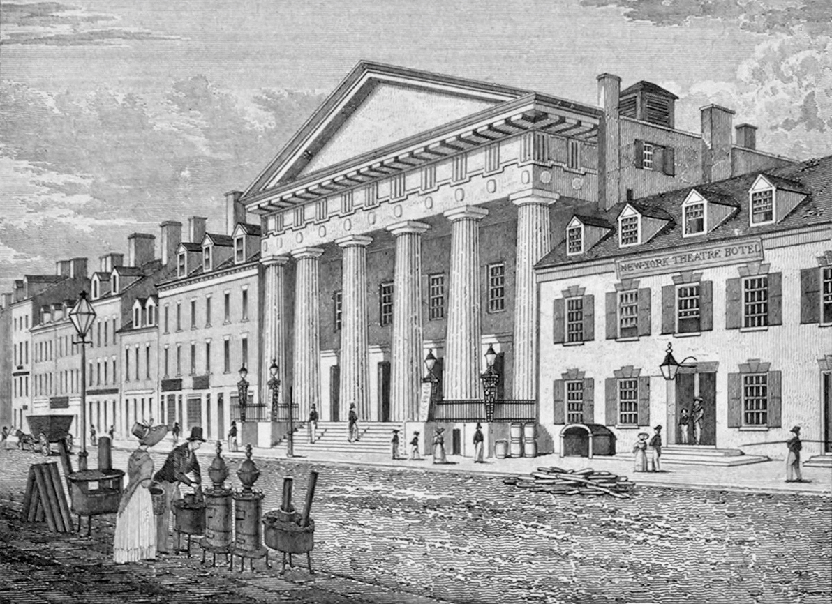 Bowery Theatre of 1828, published by George Melksham Bourne; looking toward Bayard Street This is a retouched picture, which means that it has been digitally altered from its original version. Modifications: file format changed from tif to jpg; rotated; color- and light-adjusted; blemishes removed.